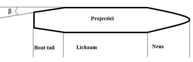 Boat tail with angle bèta to reduce zero-lift drag coefficient